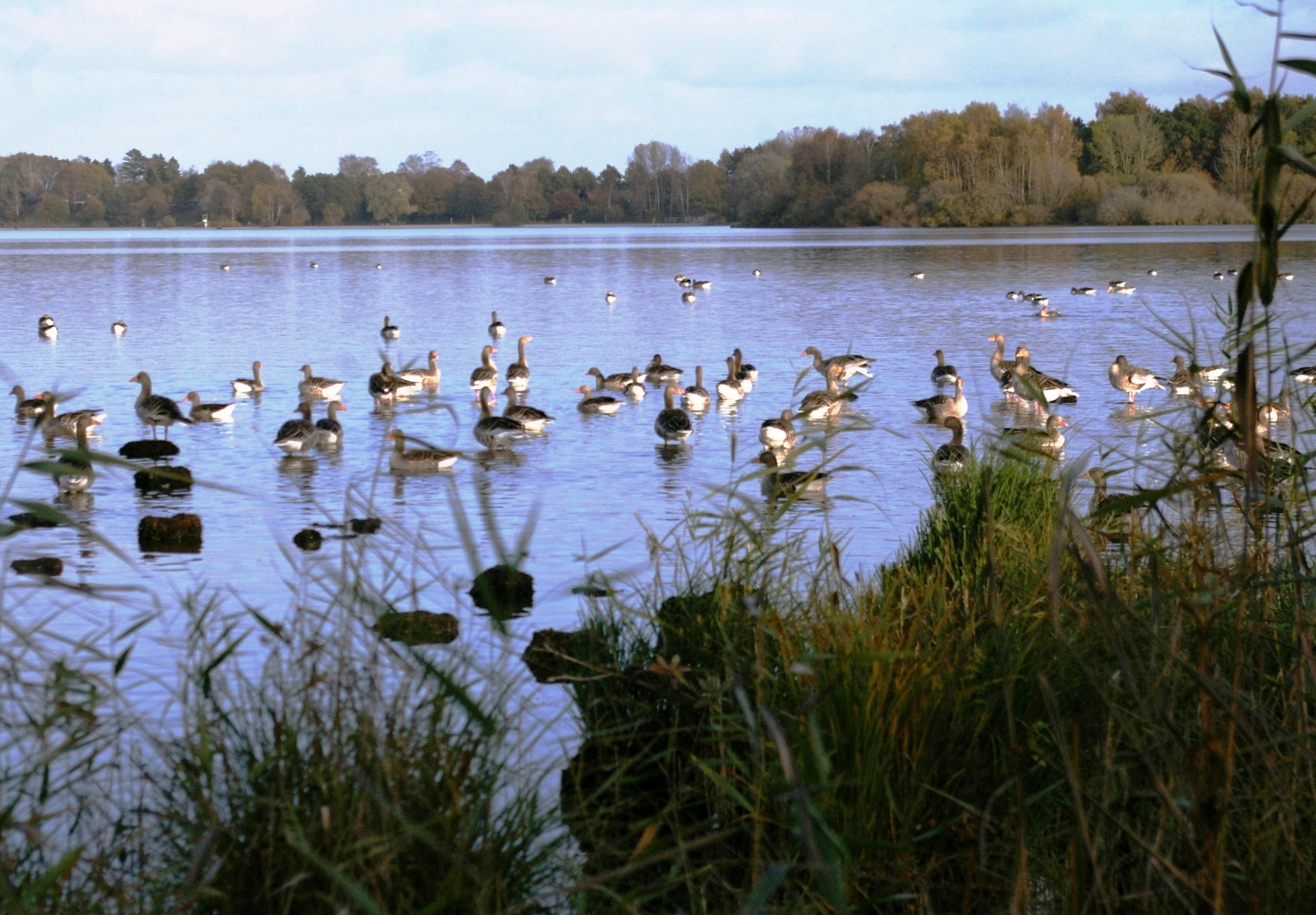 Gray-lag geese on Einfelder See (Lake in Schleswig-Holstein)